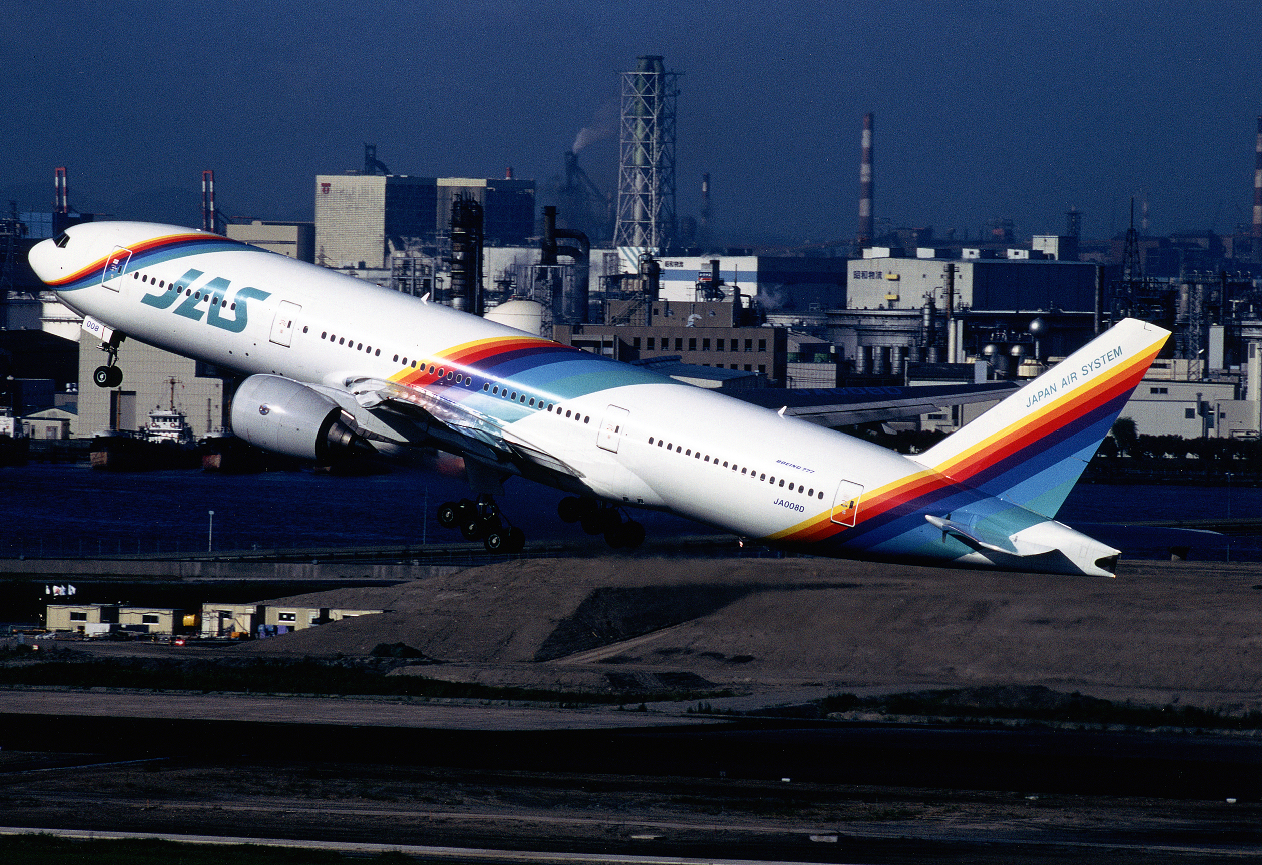 JAPAN AIR SYSTEM RAINBOW SEVEN Boeing777-200 JA008D at Tokyo International Airport